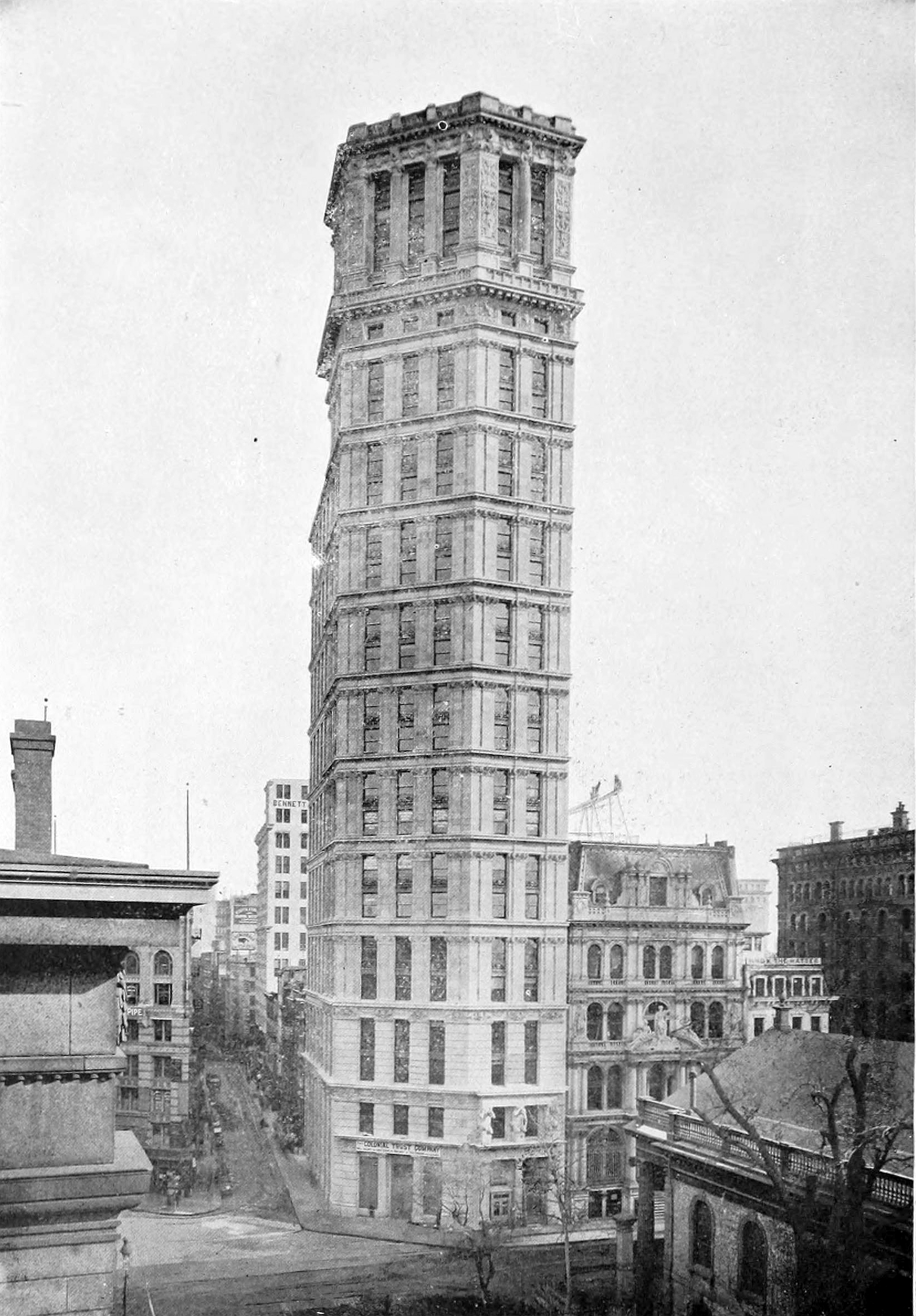 St. Paul Building, New York City. Title: A history of real estate, building and architecture in New York City during the last quarter of a century Year: 1898 (1890s) Authors: Durst, Seymour B., 1913-, former owner. NNC Real Estate Record Association Union League Club (New York, N.Y.), former owner. NNC Subjects: Real estate business Building Architecture Publisher: New York : Record and guide Text Appearing Before Image: RESIDENCE OP R. M. BULL. ESQ.40 East 4 th Street. Clinton & Russell. Architects. (1S97.) Text Appearing After Image: BVILDIXO AXD ARCHITECTLRE IN hEII YORK.